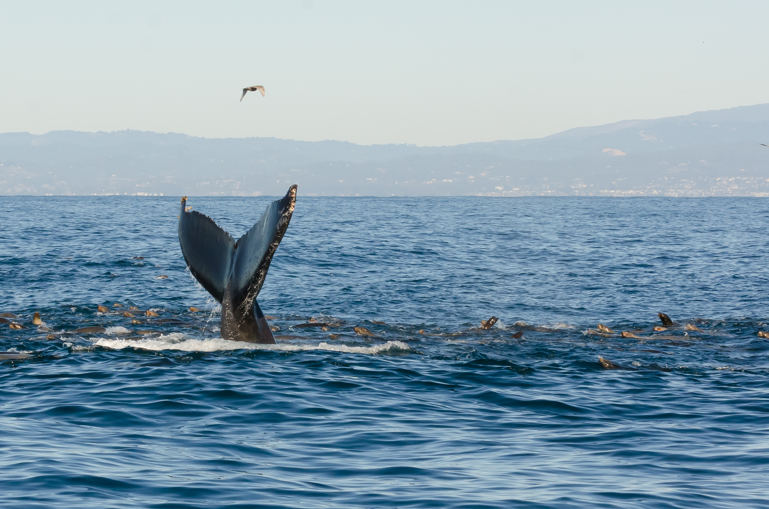 In an unprecedented season, juvenile male humpback whales and sea lions feed on anchovies late into December